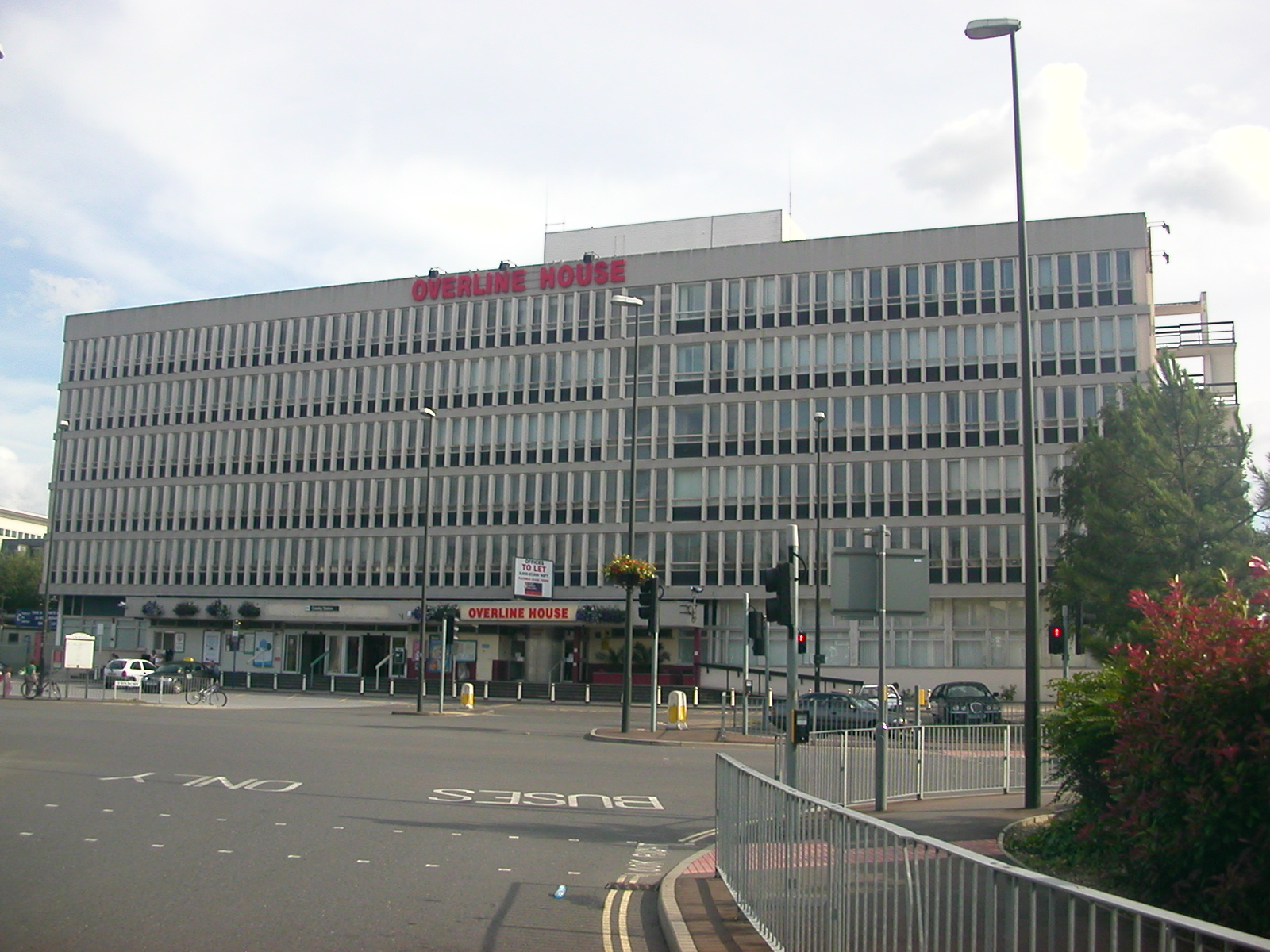 View of the front of Crawley station and Overline House. Photographed on 7th July 2007.